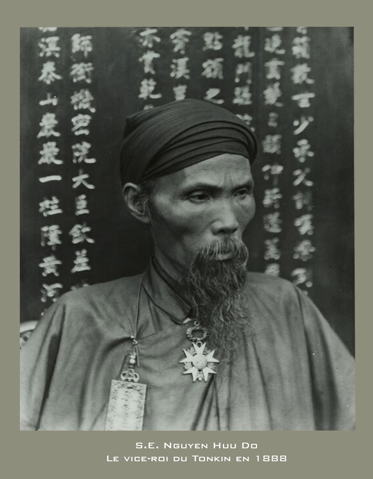 Toponyme(s) : Asie / Asie du sud-est / Viet Nam / Ha Noi, thu do / Ha NoiPhotographe : Auguste Jean-Marie Pavie (1847 - 1925)Réalise le tirage : Laboratoire photographique du Musée de l'HommeProduction interne : Laboratoire photographique du Musée de l'HommeDonateur : Laboratoire d'Anthropologie du MuséumPrécédente collection : Musée de l'Homme - PhotothèqueDate(s) : 1887-1895 : date de prise de vue initiale /1966 : date du tirageEvénement : Mission Pavie 1887-1895Matériaux et Techniques : Tirage sur papier baryté monté sur cartonDimensions : Dimensions du montage : 22,5 x 29,5 cm